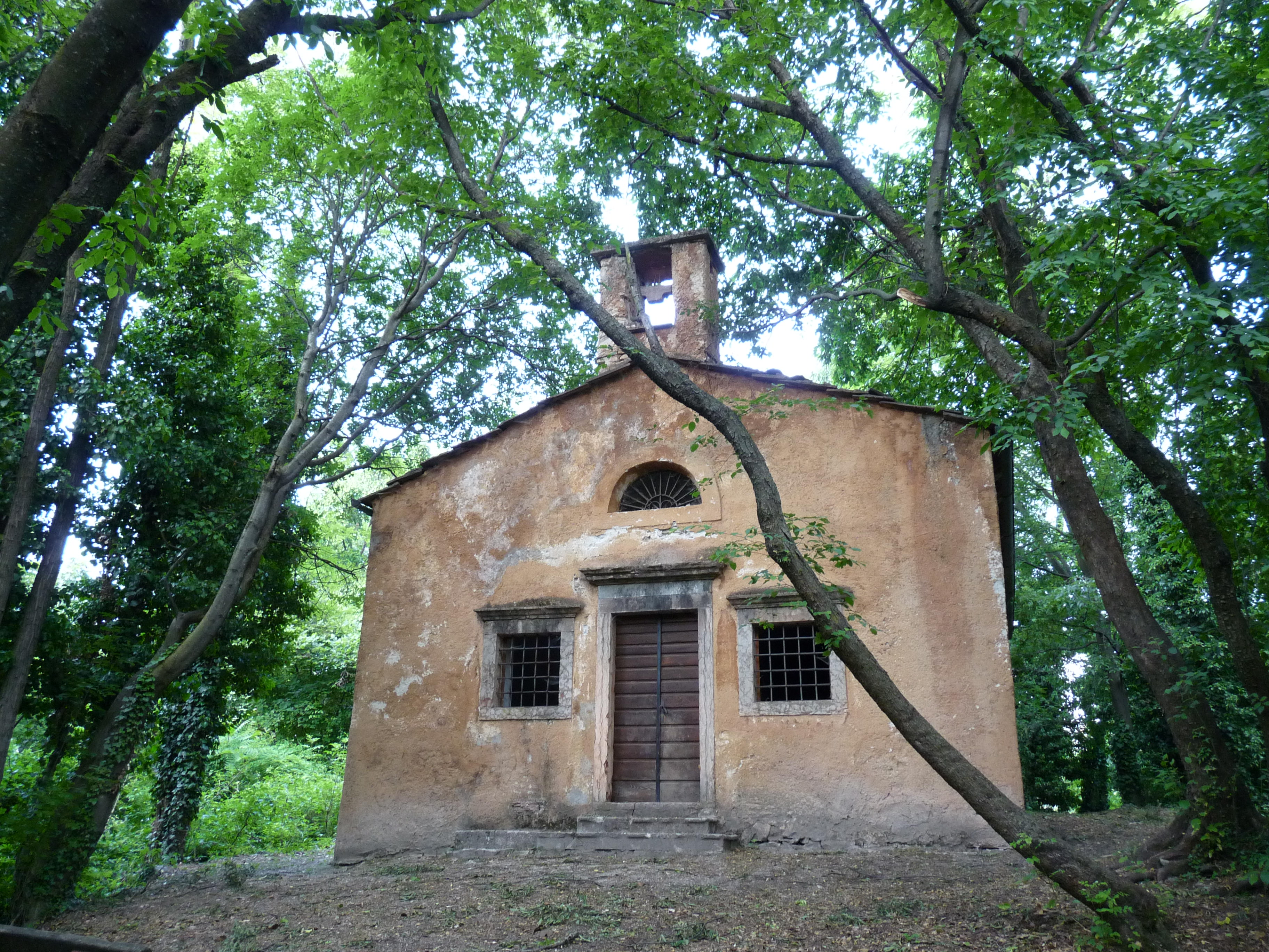 Trento (Italy): the Sant'Agata church on the top of the Sant'Agata hill, in the village of Povo